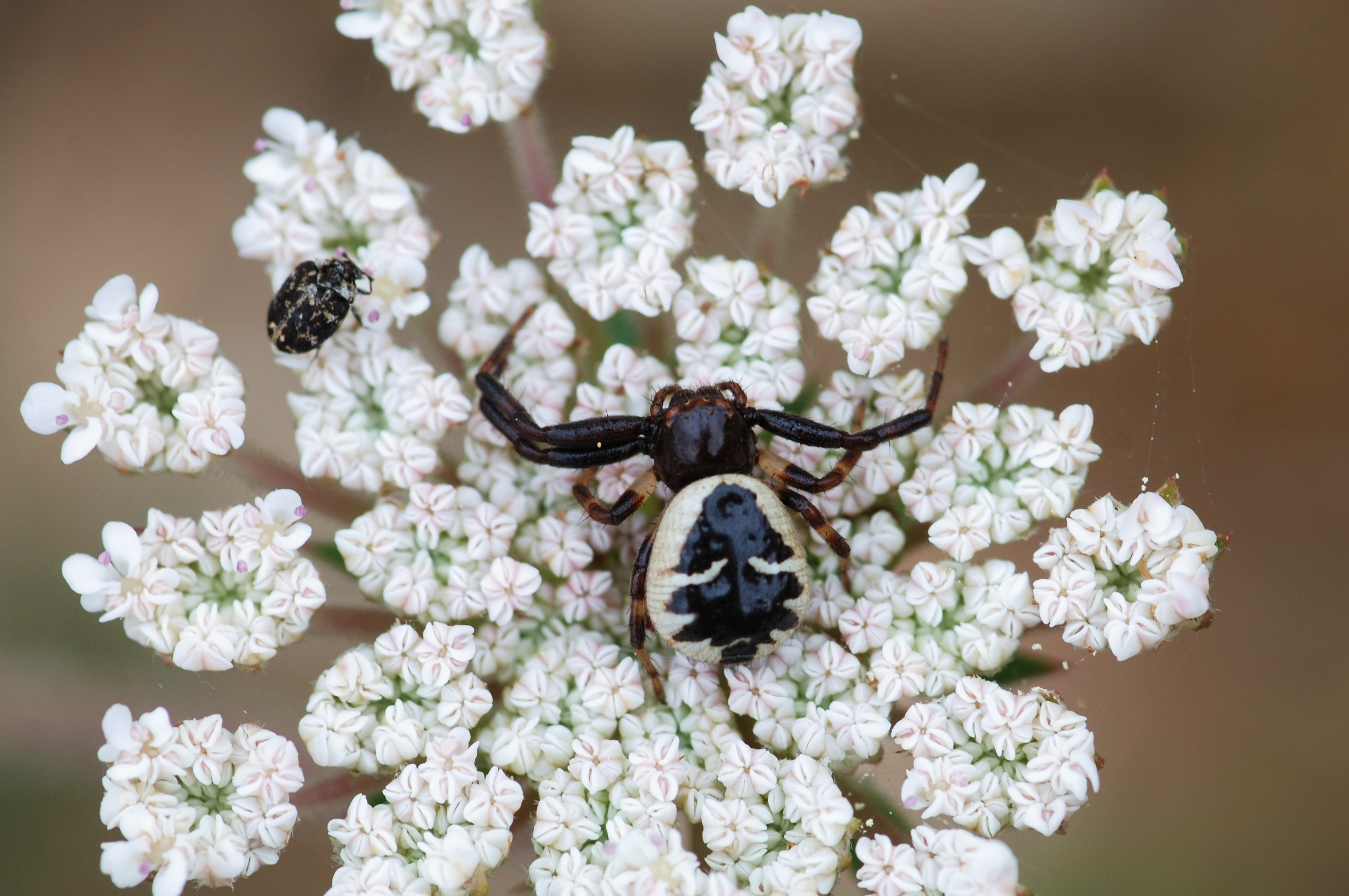 White form of the Red Crab Spider with unknown beetle (probably Anthrenus sp.).